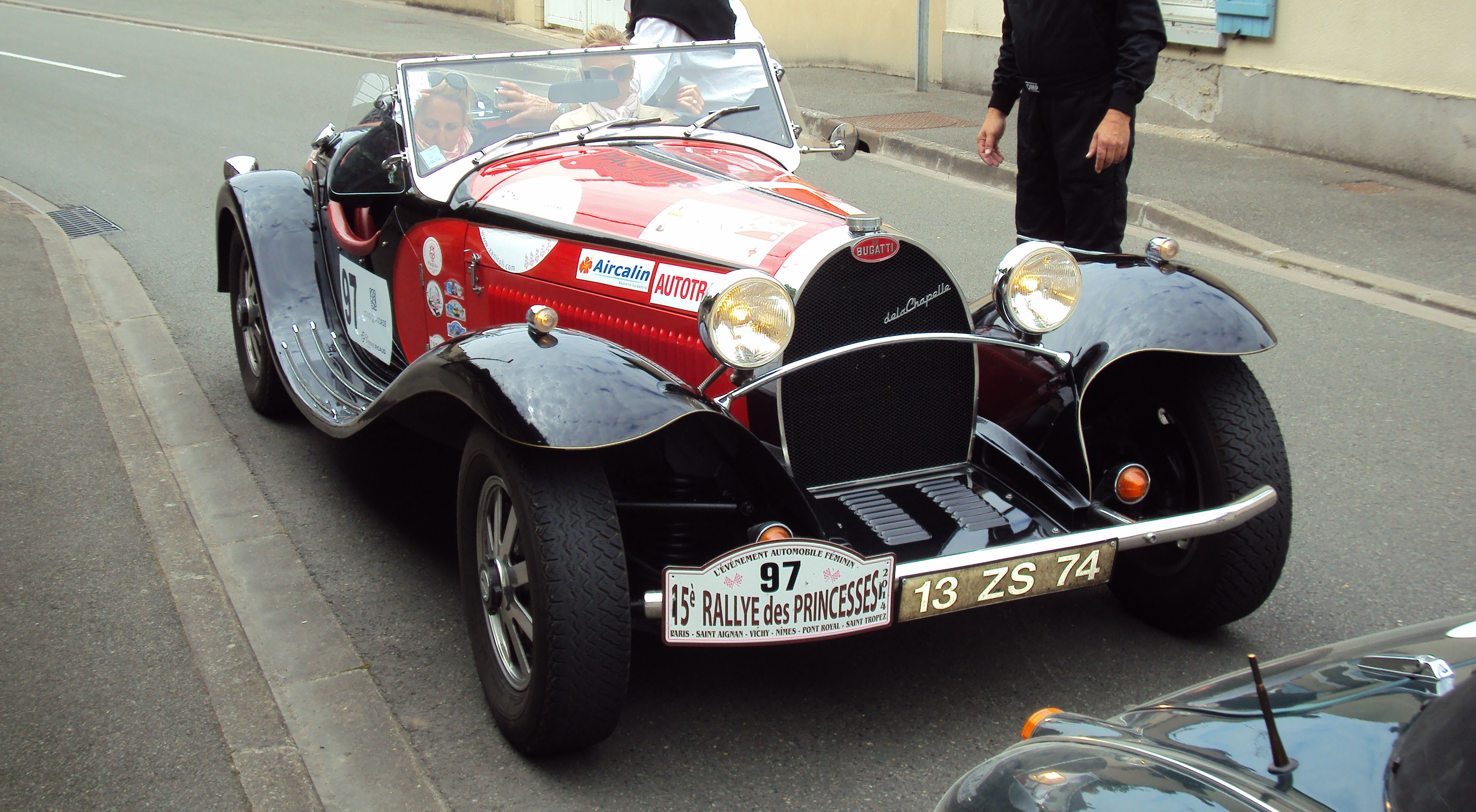 A 1988 Bugatti de la Chapelle type 55 at the 2014 Rallye des Princesses.